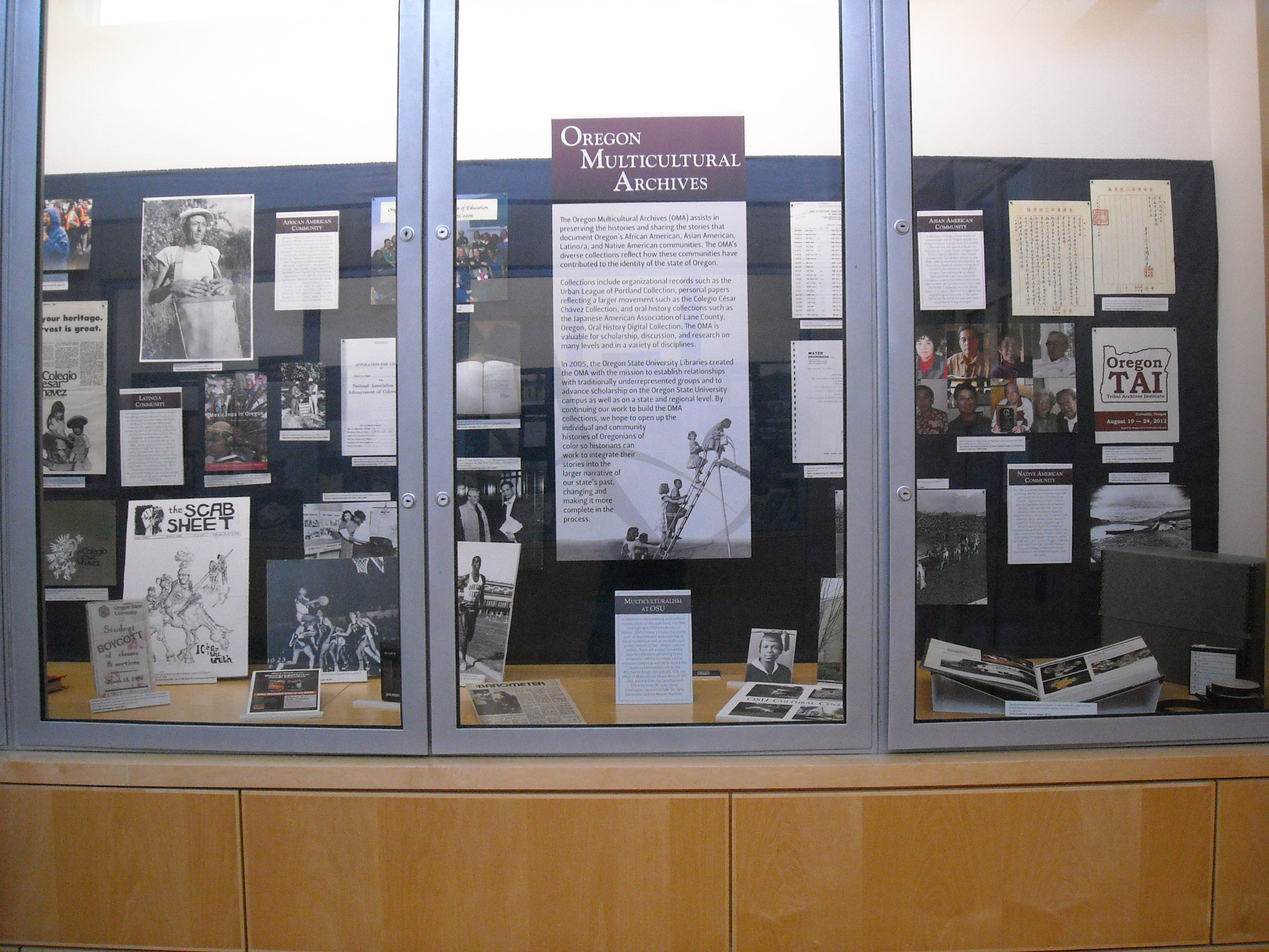 Archivo